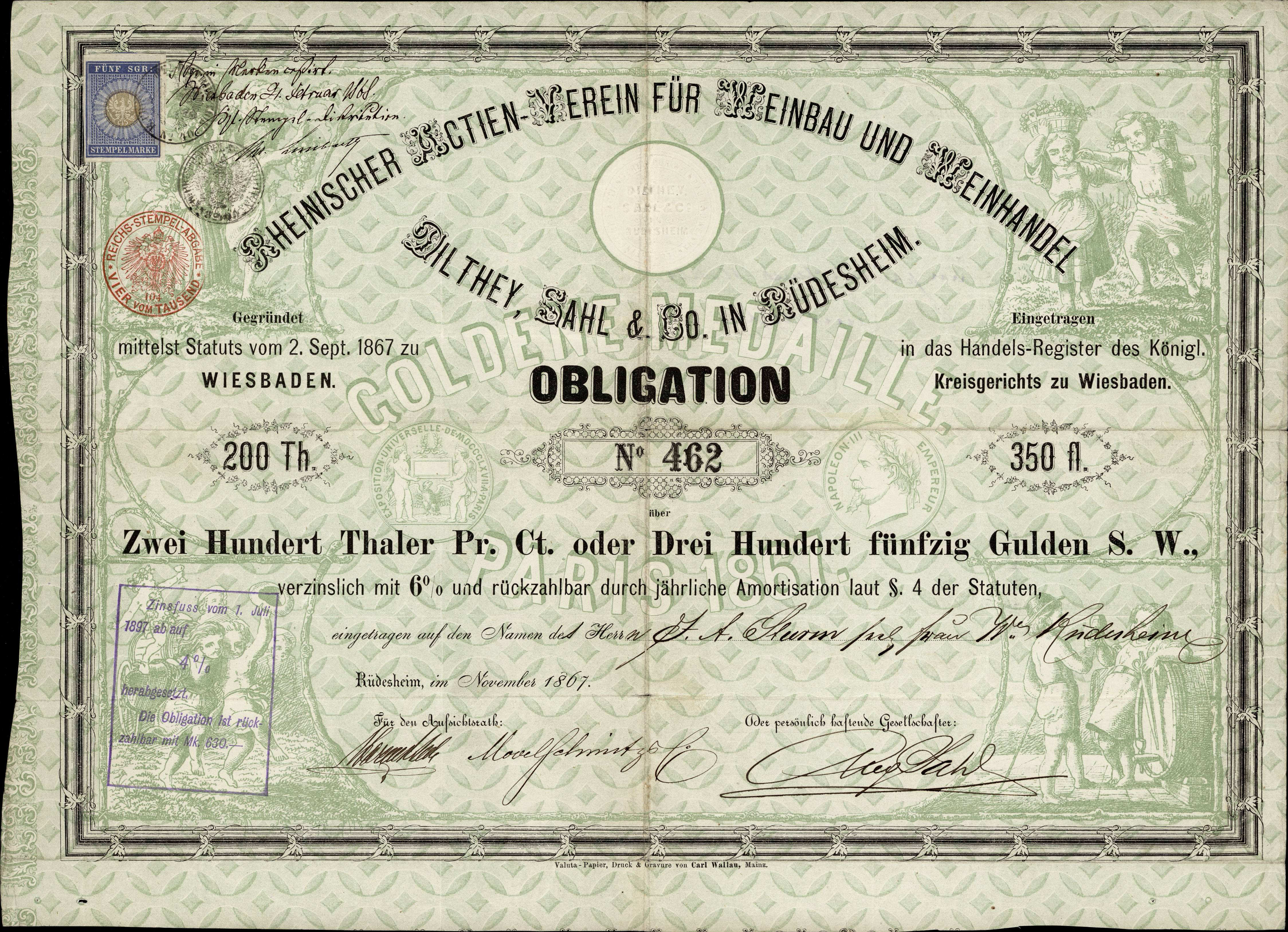 Bond of the Rheinische Actien-Verein für Weinbau und Weinhandel Dilthey, Sahl & Co, issued November 1867